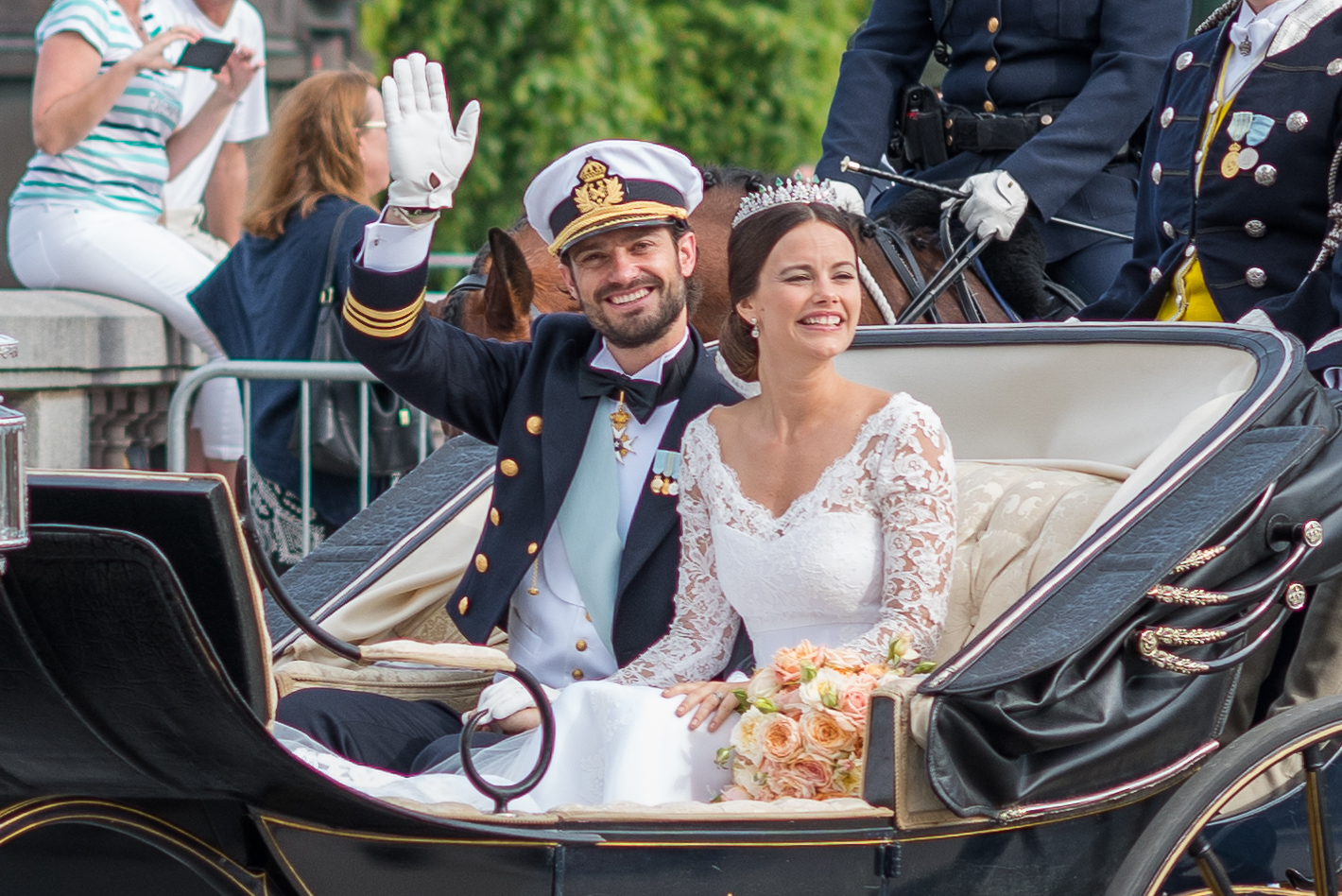 Prince Carl Philip and Princess Sofia wedding cortege 13 June 2015